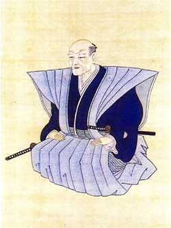 Portrait Zeniya Gohei